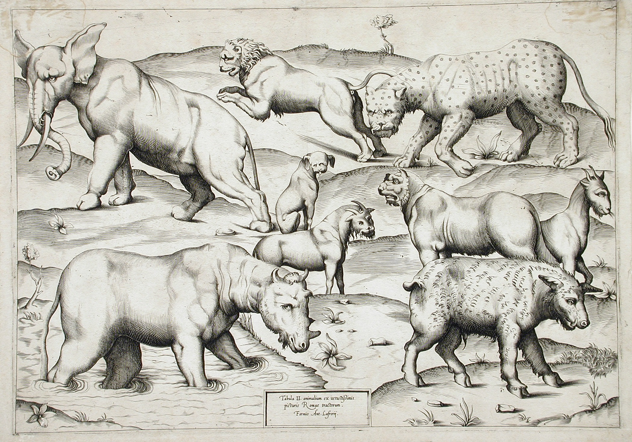 Italy, 1547 Series: Speculum Romanae Magnificentiae Prints; engravings Engraving Gift of Mrs. Irene Salinger in memory of her father, Adolph Stern (54.70.11) Prints and Drawings